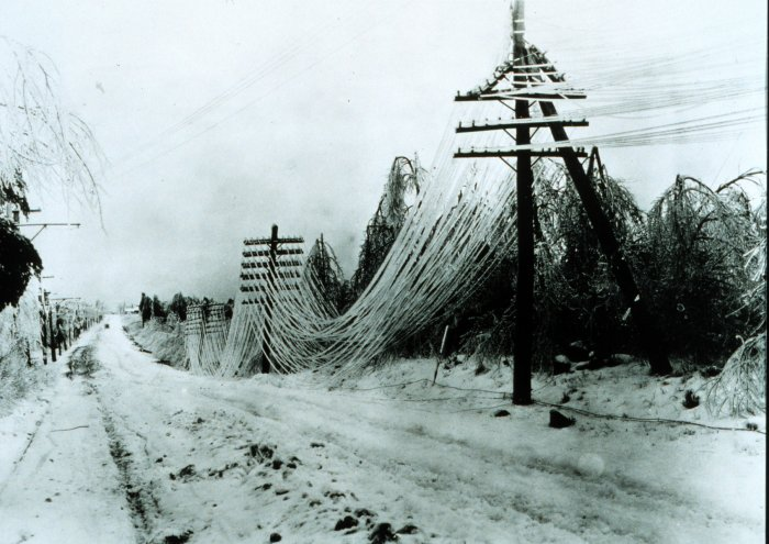 Besides disrupting transportation, heavy ice and snow can damage utilities. Power and telephone lines sagging after heavy icestorm. Historic NWS Collection.